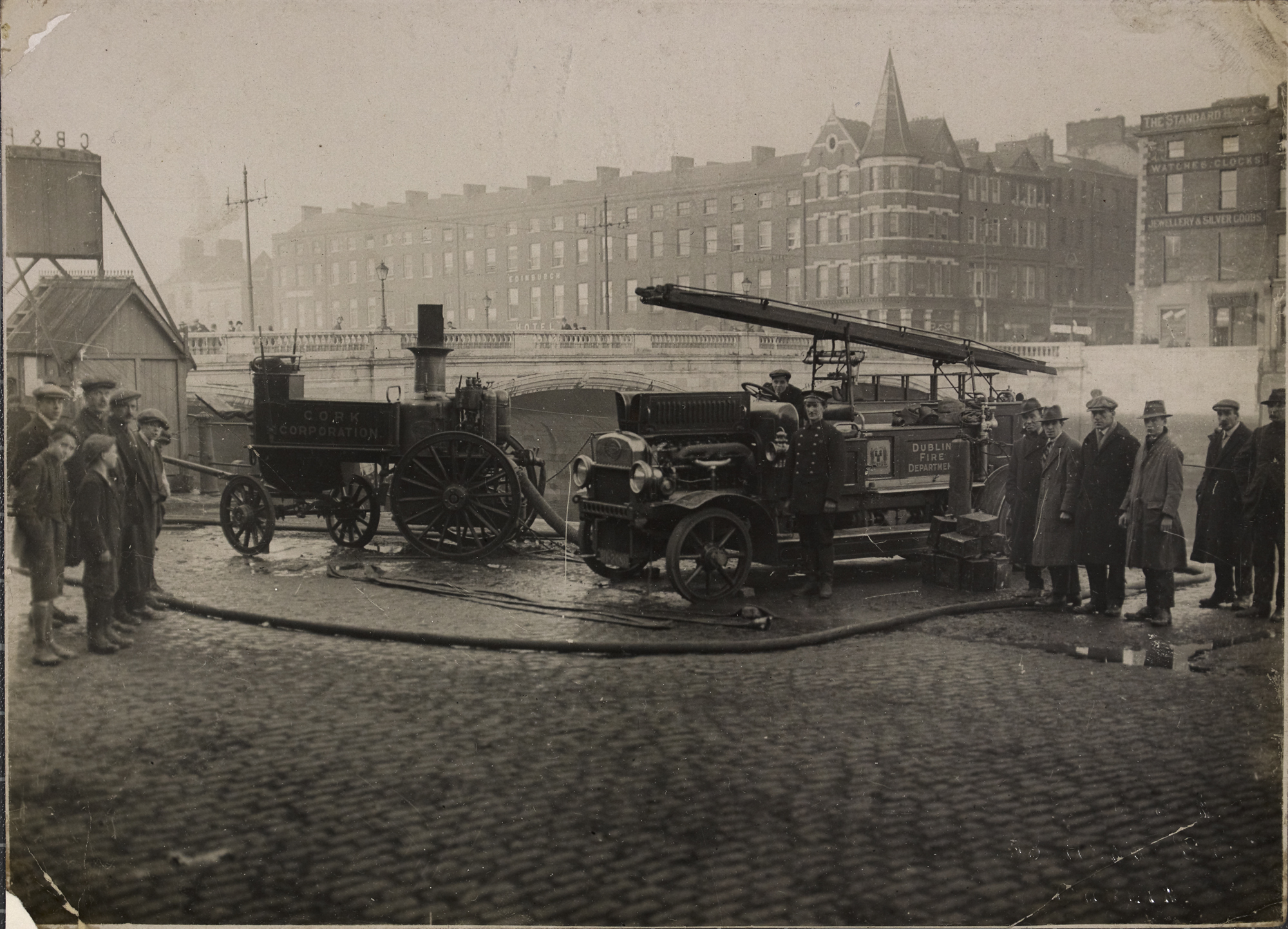 Dublin and Cork fire brigade appliances. We were not sure if this photo was for our the Irish War of Independence or the Irish Civil War albums so we did not add it to either. We are no confident to change the date and add this to the Irish war of Independence album thanks to information supplied by [/photos/47297387@N03/ Carol Maddock] . She tells us that on Sunday 12th December 1920 a Dublin Fire Brigade contingent were conveyed by the special train to Cork to help with the fires during the Burning of Cork [/photos/91549360@N03/ OwenMacC] Tells us that the Dublin vehicle is a Leyland, "In 1909 the Chief Fire Officer of Dublin arrived at the Leyland works and told the astounded company that he had decided that they built the finest petrol truck chassis in the country, and that nothing but the best would be good enough for his proposed new fire engine. Though Leyland protested that they knew nothing of fire engine design, the astute fireman had come armed with his own ideal specification and Leyland agreed to build his engine" Photographer: W. D. Hogan Collection: Collection Hogan-Wilson Collection Date: 12th or 13th December 1920 NLI Ref.: HOGW 143 You can also view this image, and many thousands of others, on the NLI’s catalogue at